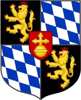 Arms of the Elector Palatine of the Rhine, in German "Kurfurst der Pfalz und Pfalzgrafen bei Rhein . Based on work of User:Katepanomegas, File:CoA Kurpfalz-Bayern 1799-1804.svg.